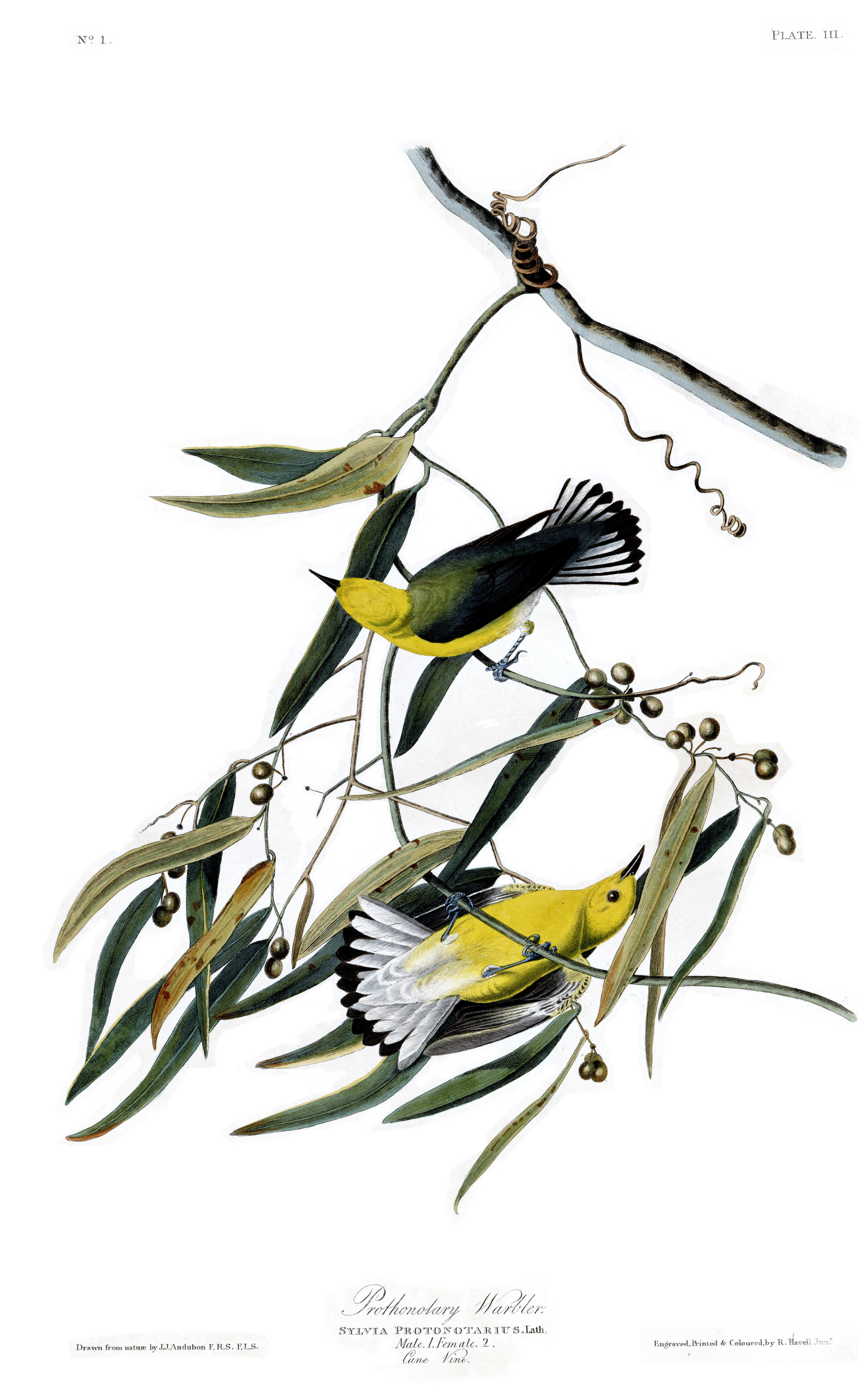 Plate 3 of Birds of America by John James Audubon depicting Prothonotary Warbler.